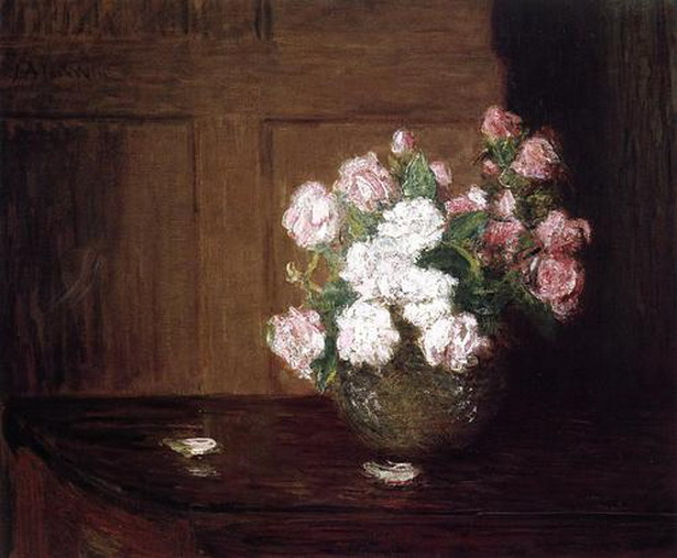 Julian Alden Weir (American, 1852-1919), Roses in a Silver Bowl on a Mahogany Table, c. 1890